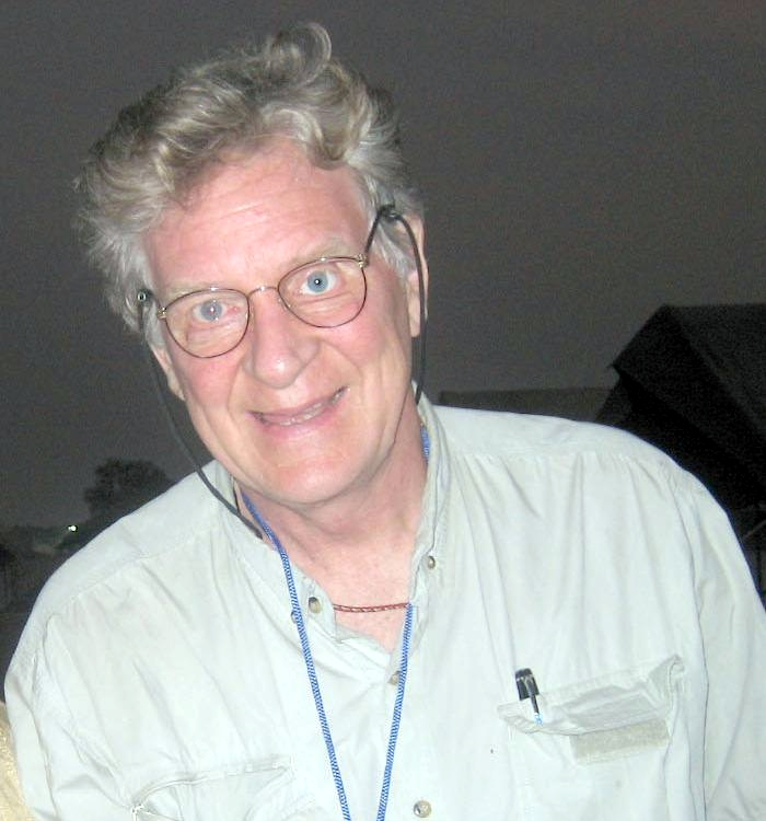 Robert Thurman